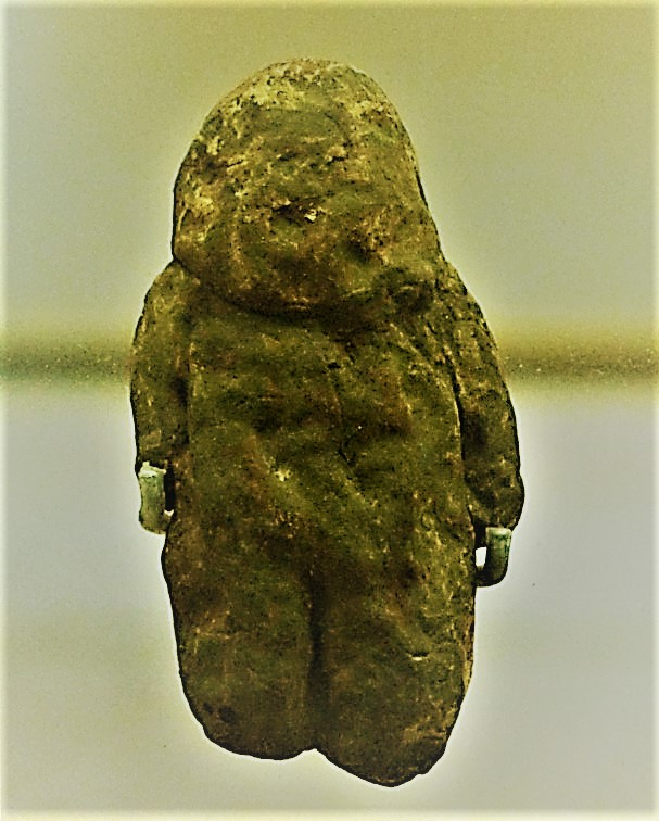 Venus of Tan-Tan